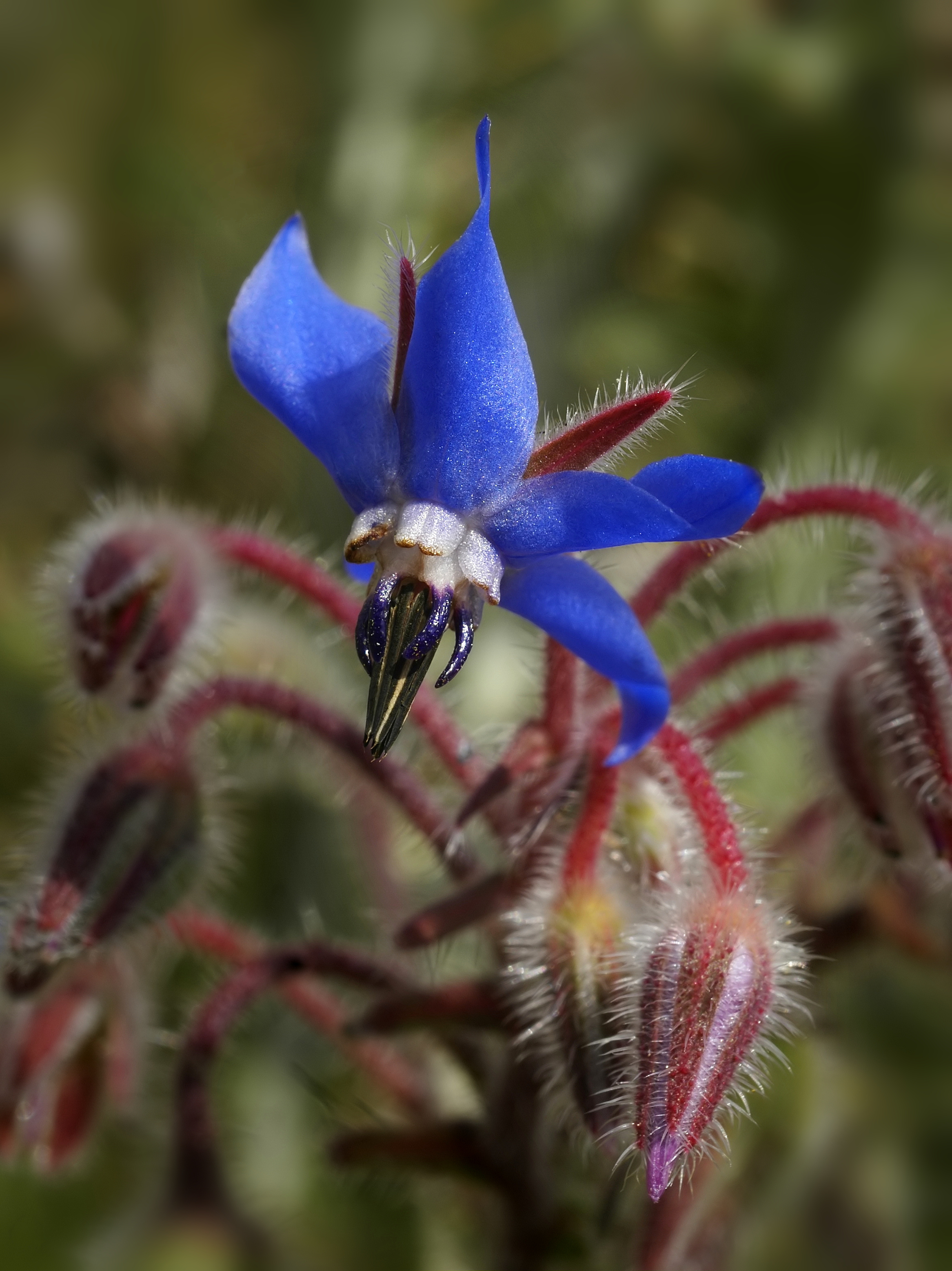 Borage near Font de Tita, el Perelló (Catalonia), Spain